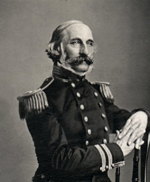 Charles Henry Davis (1807 – 1877), U.S. naval officer.